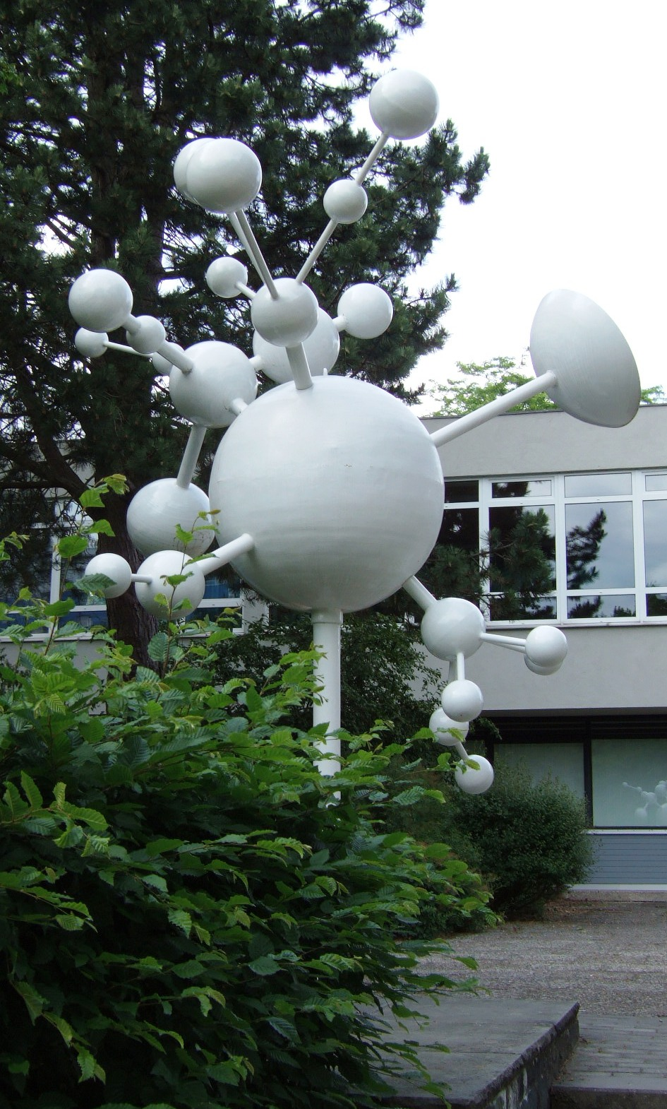 Sculpture by Harald Duwe in front of grammar school Coppernicus-Gymnasium (Norderstedt/Germany).